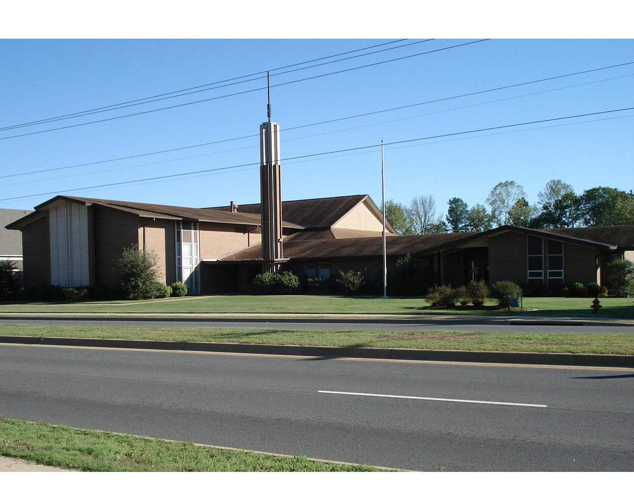 The Conway Ward meetinghouse of The Church of Jesus Christ of Latter-day Saints (LDS Church).